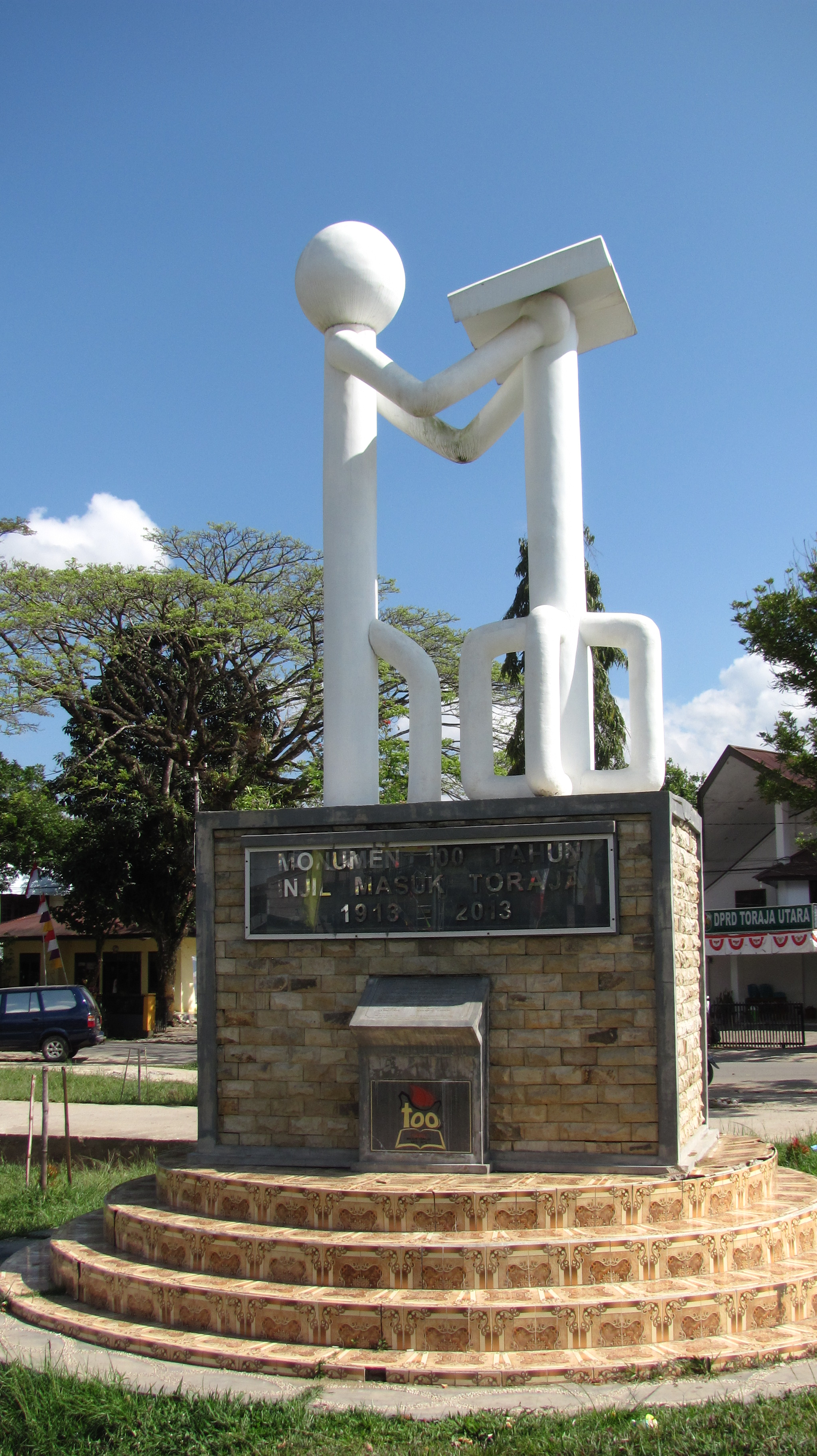 Bible Monument, Rantepao, Sulawesi, Indonesia. The monument refers to the introduction of the Bible in Tana Toraja in 1913.